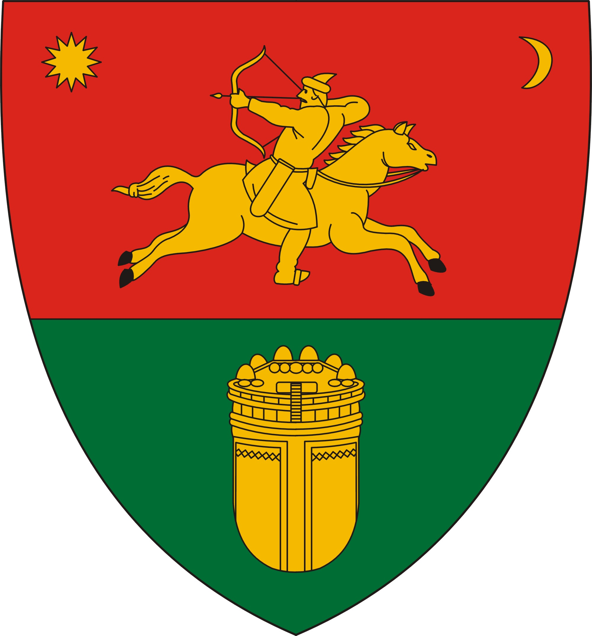 Coat of arms of Törtel, Hungary